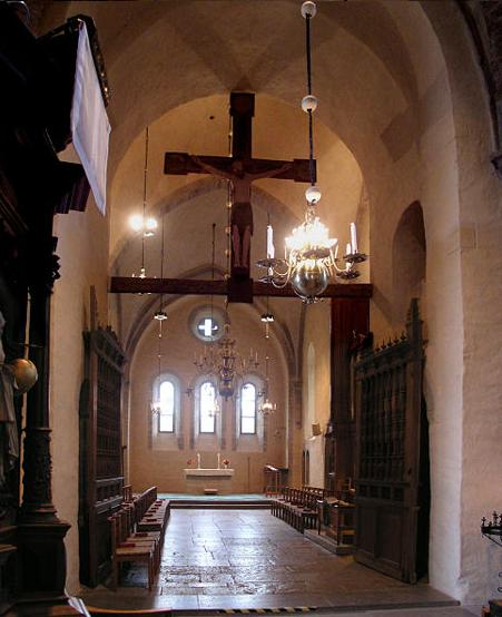 10th century windows (Steinchetellian Dynasty), Vreta klosters kyrka, Diocese of Linköping, Sweden